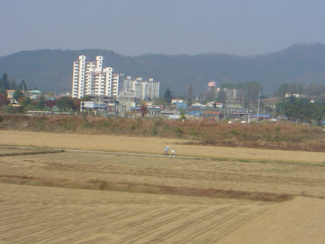 View of Waegwan-eup, Chilgok-gun, Gyeongsangbuk-do, South Korea, from a train on the Gyeongbu Line. Taken by Visviva.